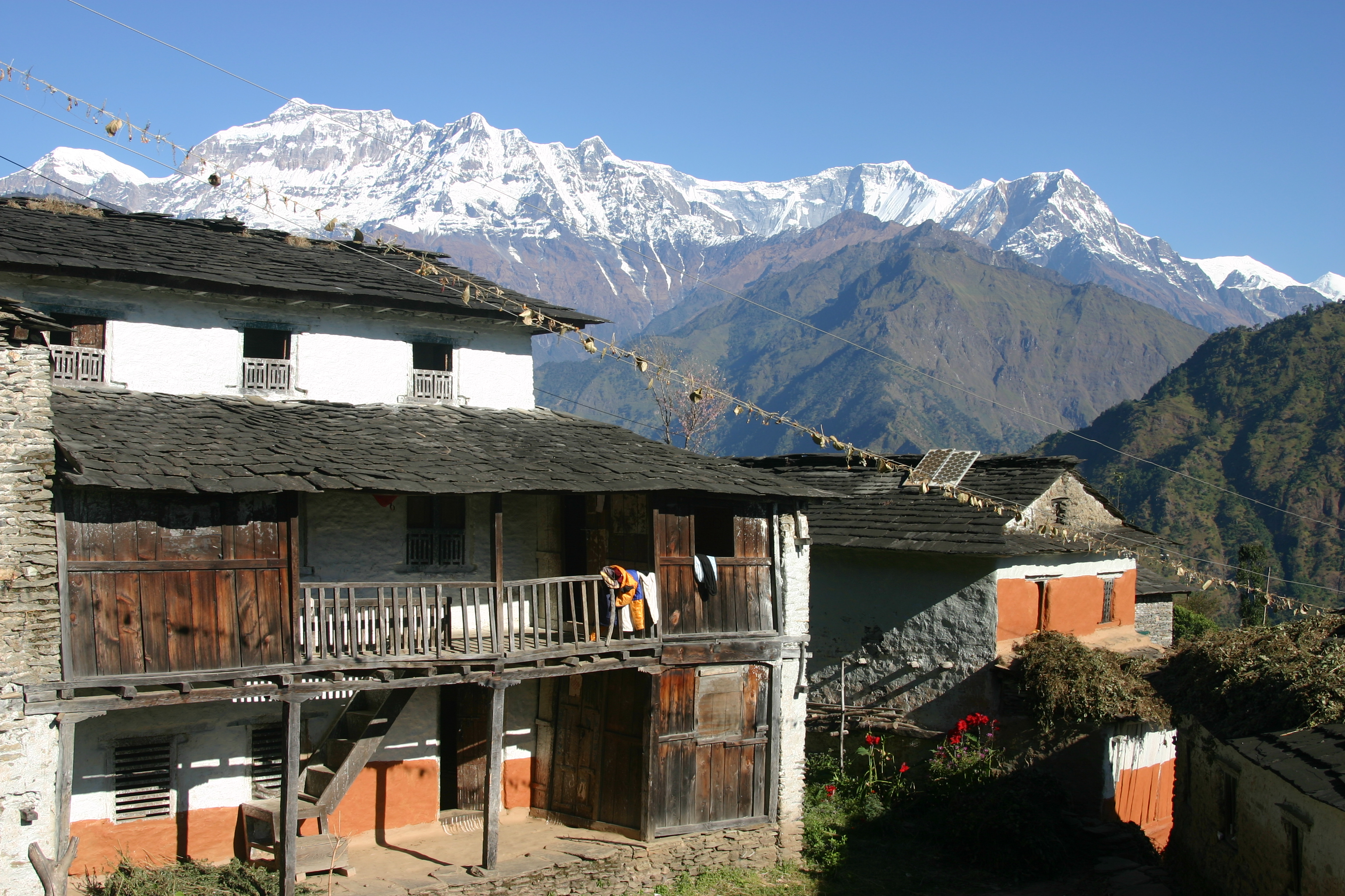 A house in Nepal